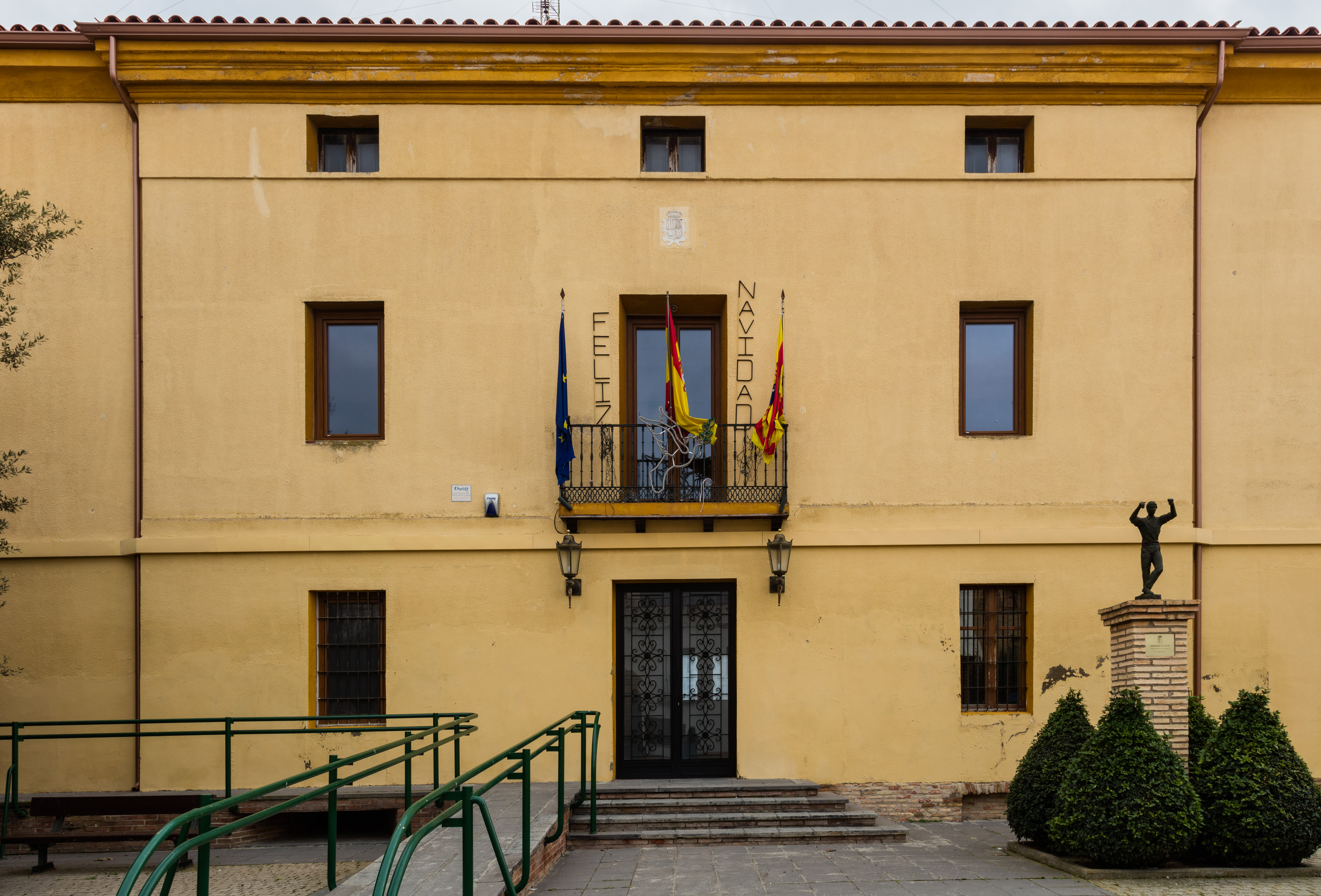 Town hall, Luceni, Zaragoza, Spain